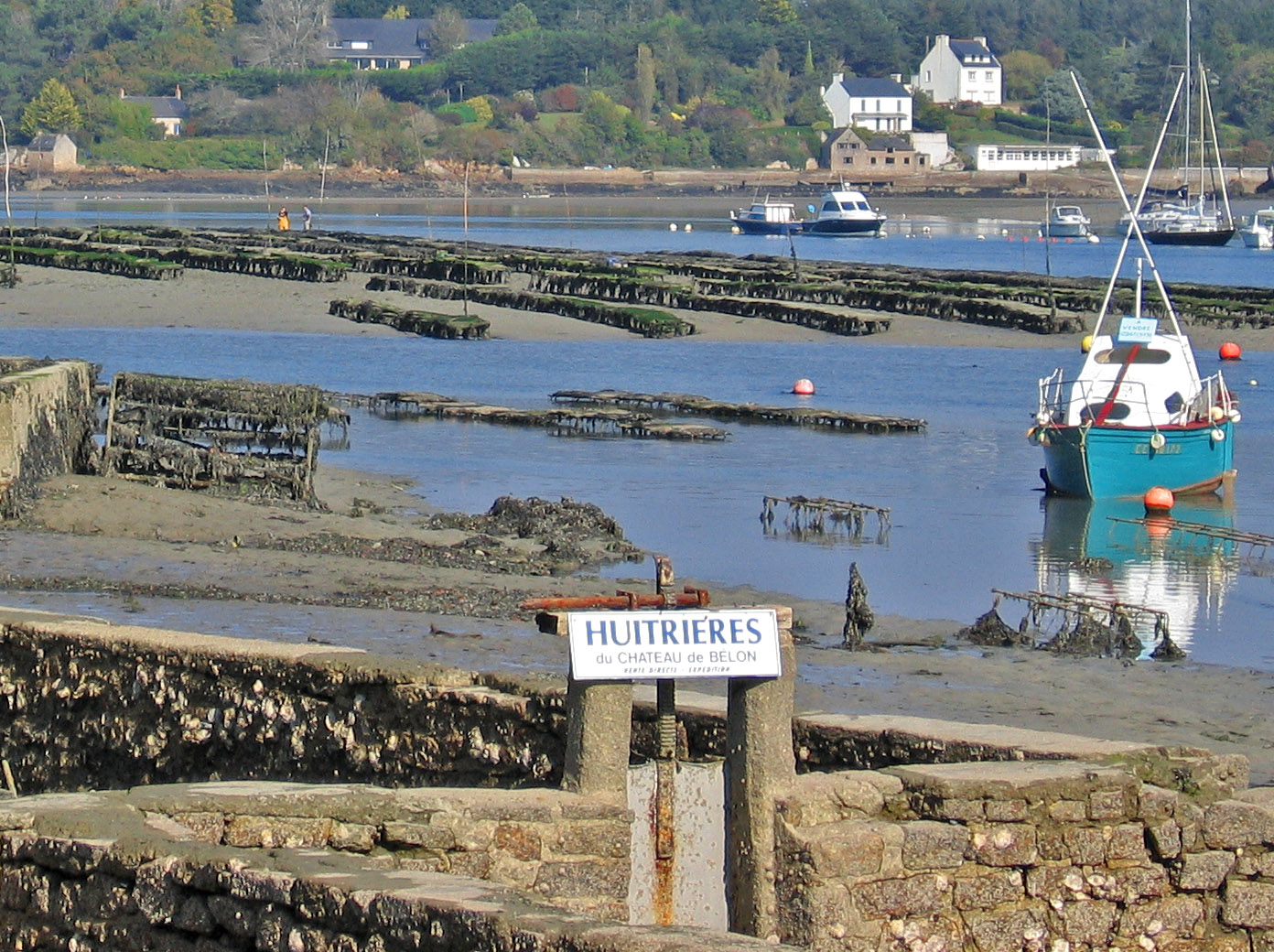 Oyster farming in Belon river, Brittany, France